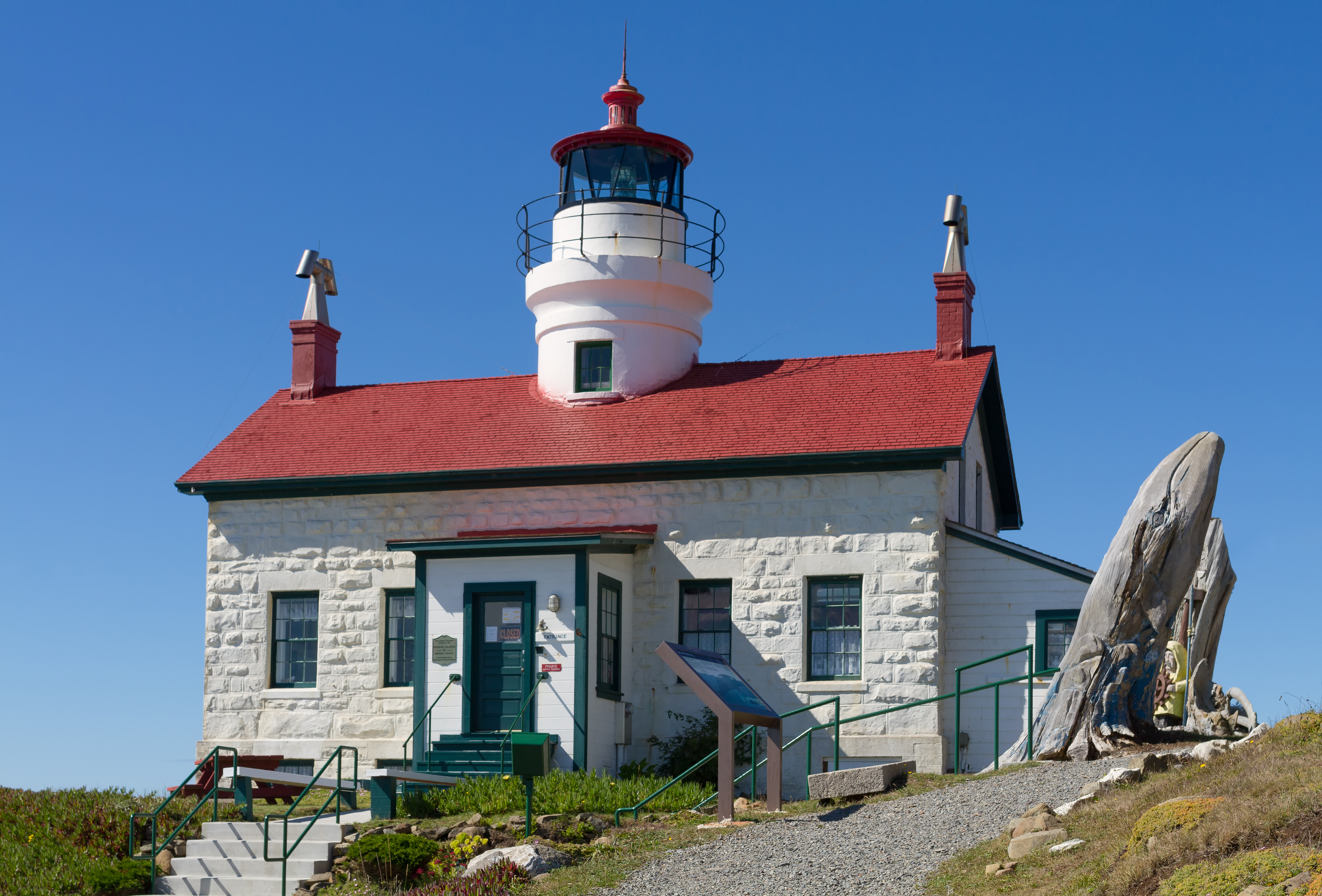 Battery Point Lighthouse, Crescent City, California in September 2013.